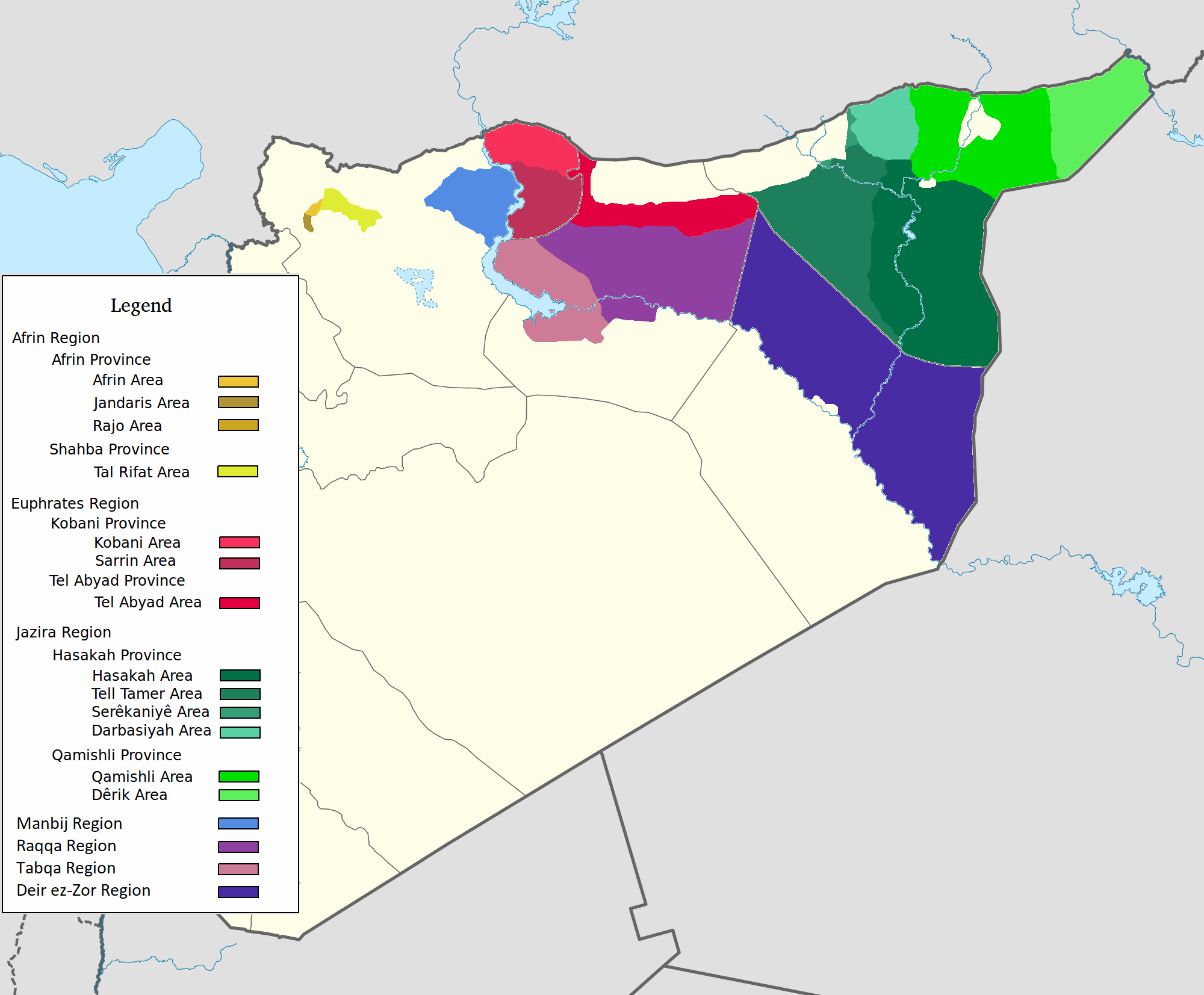 Afrin Region Euphrates Region Jazeera Region No region